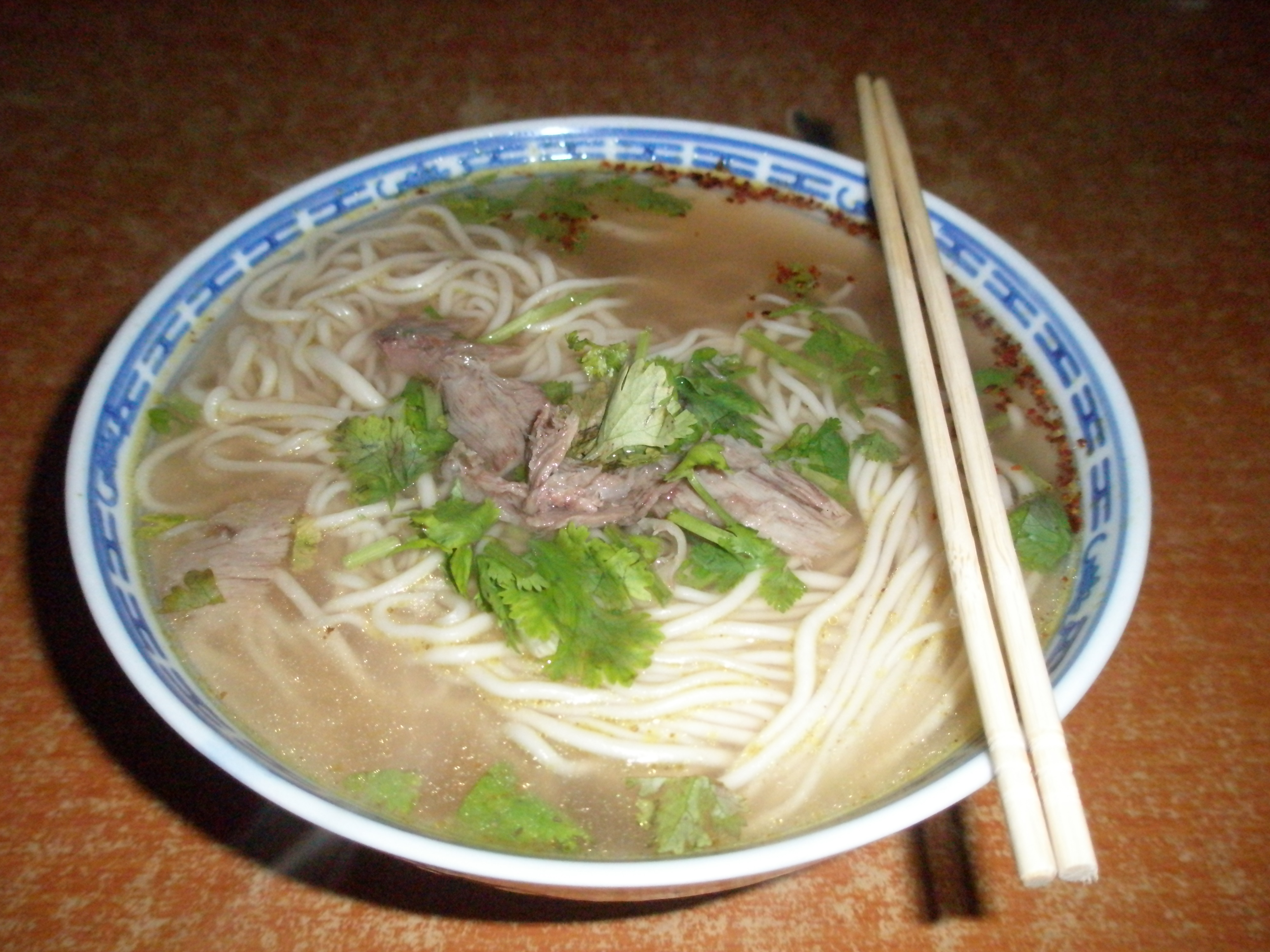 Lanzhou Ramian.￥4.5.For sale in Nanjing